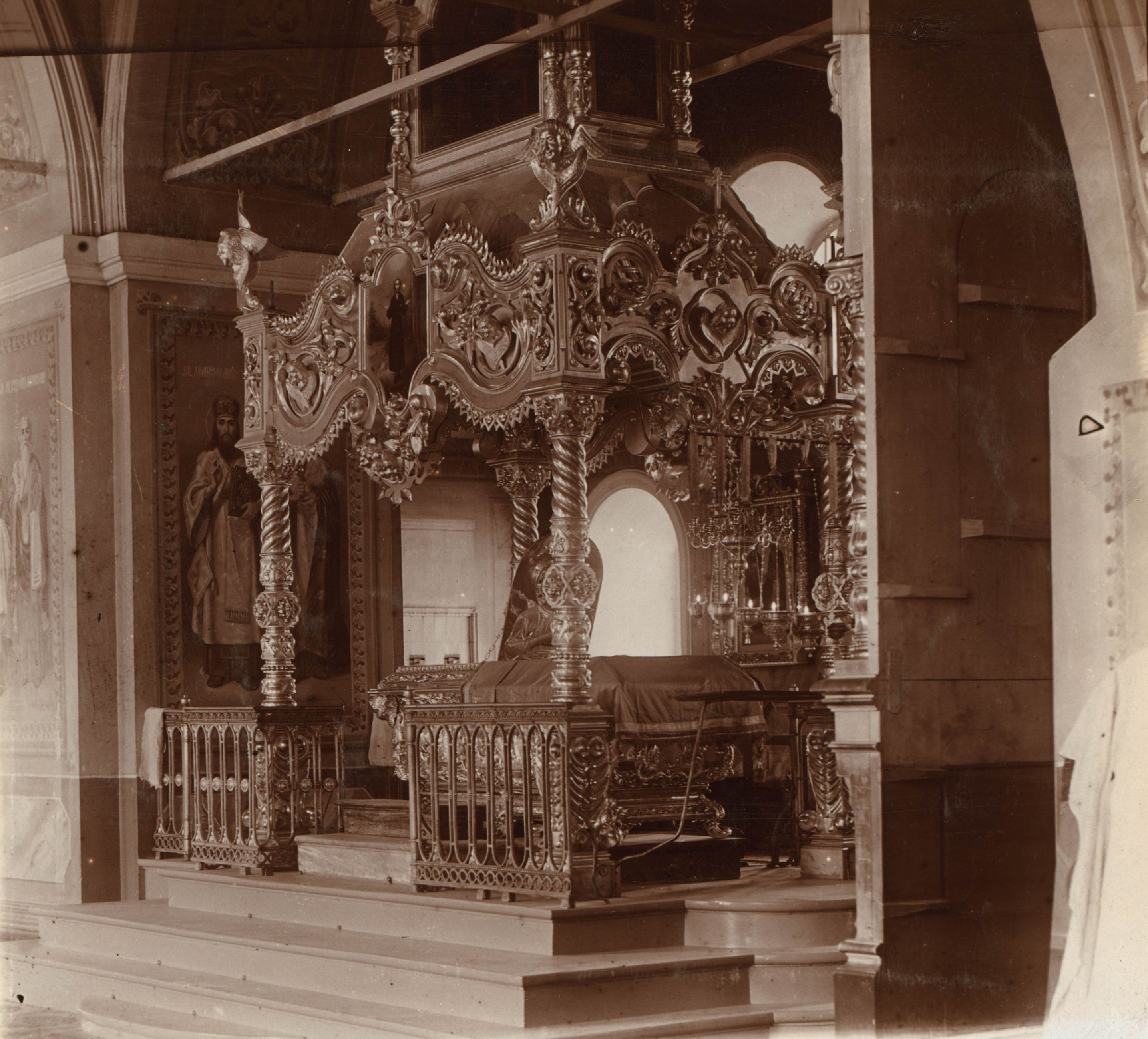 Relics of Simeon of Verkhoture in Verkhoturskii Monastery [Verkhoture] (photo taken 1910 by Sergei Prokudin-Gorskii).